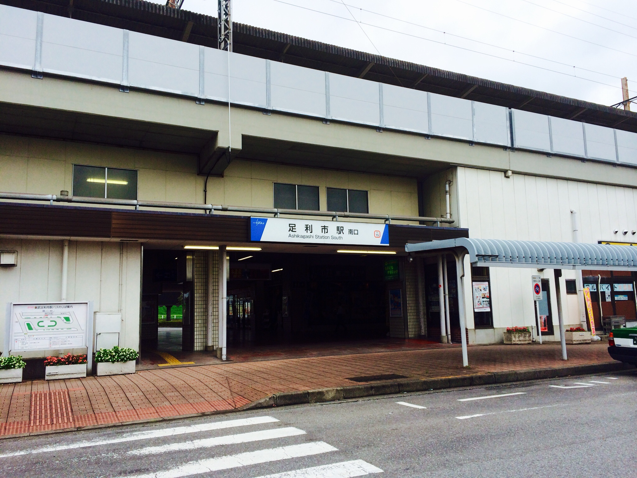 The south entrance to Ashikagashi Station on the Tobu Isesaki Line